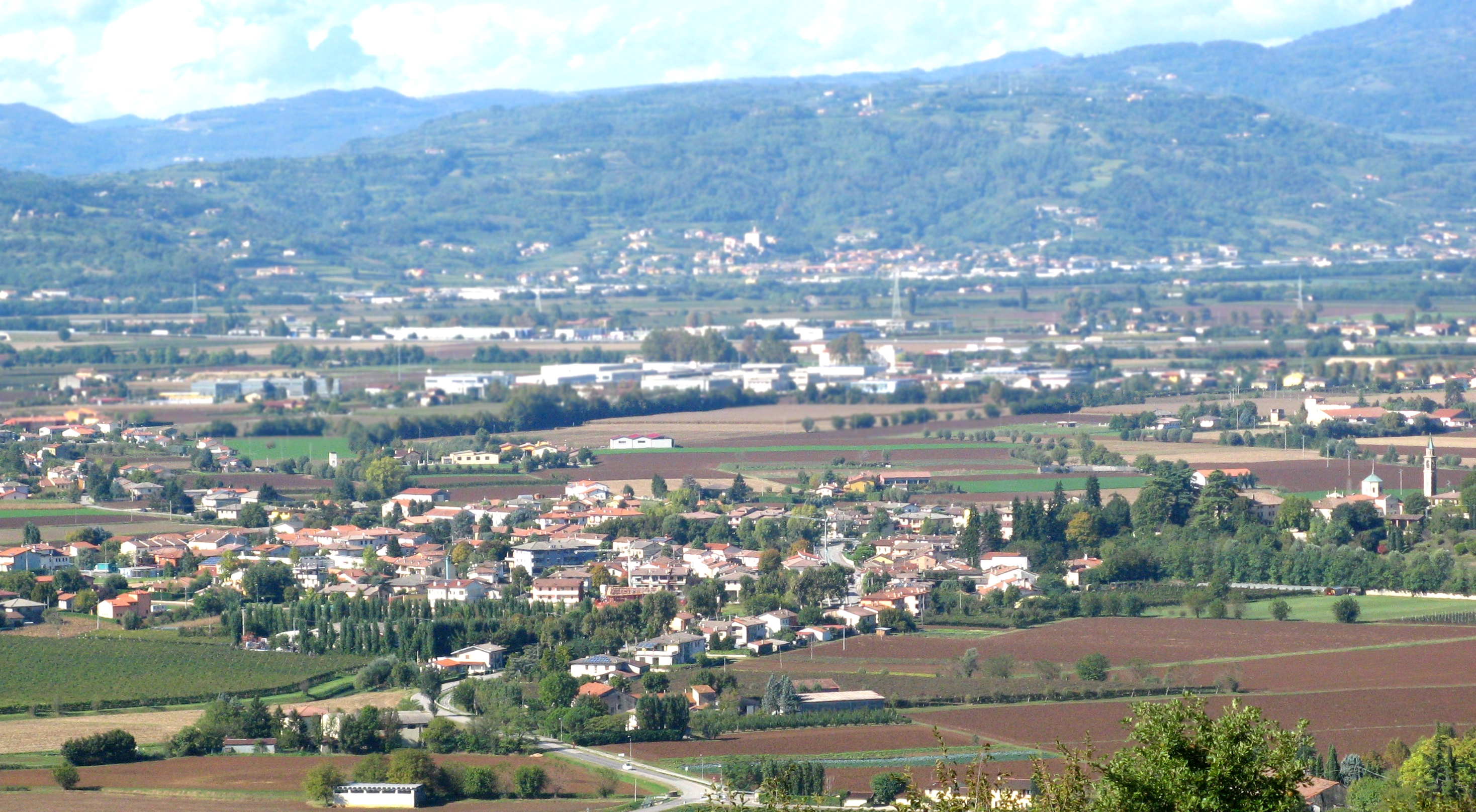 Panoramic view on Vo' di Brendola (Province of Vicenza, Italy).